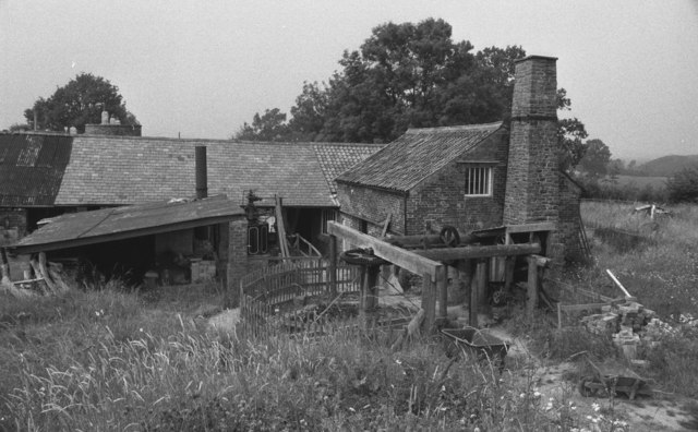 Wetheriggs Pottery Craft pottery in the early days of preservation - before Fred Dibnad did it up. This is home to a steam engine from Stoke Gas Works that replaced an earlier indigenous engine (a few parts remain).